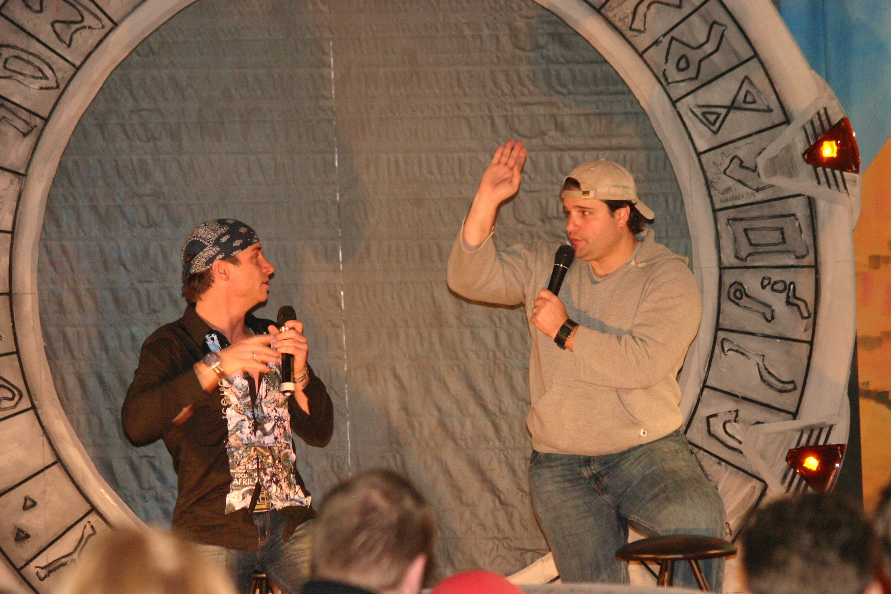 2004-12-10 - GermanCityCon Star-Guests and Directors: "The Wild Boys"; Colin Cunningham, Peter DeLuise